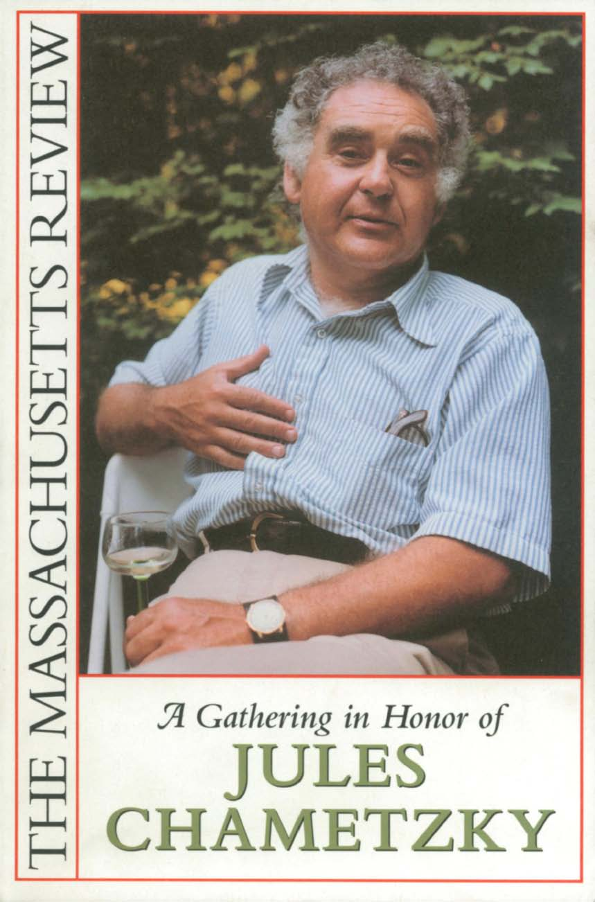 The image is a photographic portrait of Jules Chametzky, the article's subject, by the noted photographer and Massachusetts Review editor Jerome Leibling.